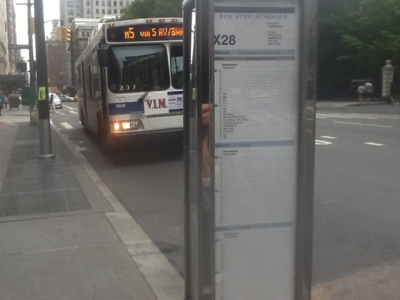 MTA New York City Transit Guide A Ride kiosk and bus, specifically at Broadway and Park Place.